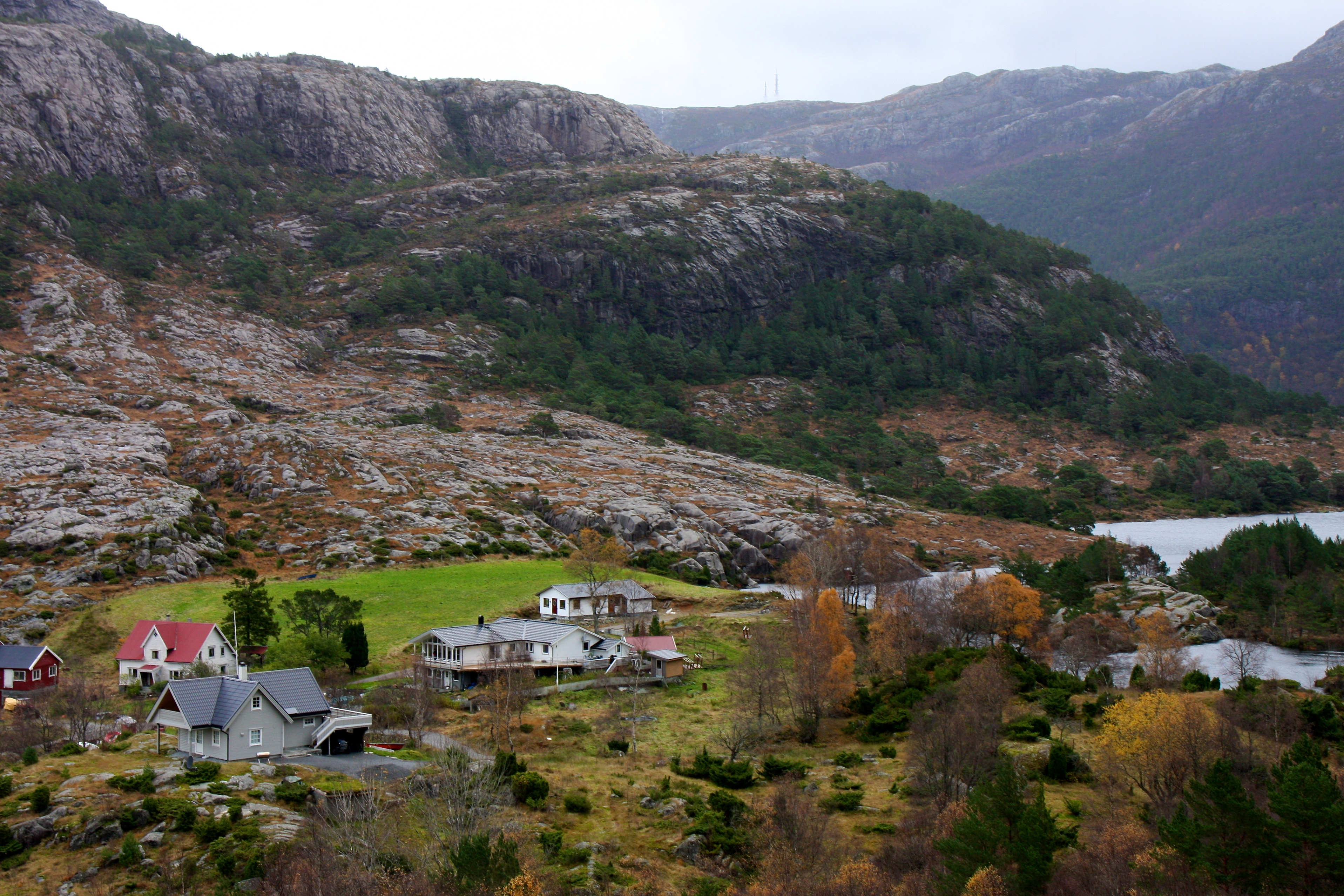 Dingjaelva in Gulen municipality, Norway.